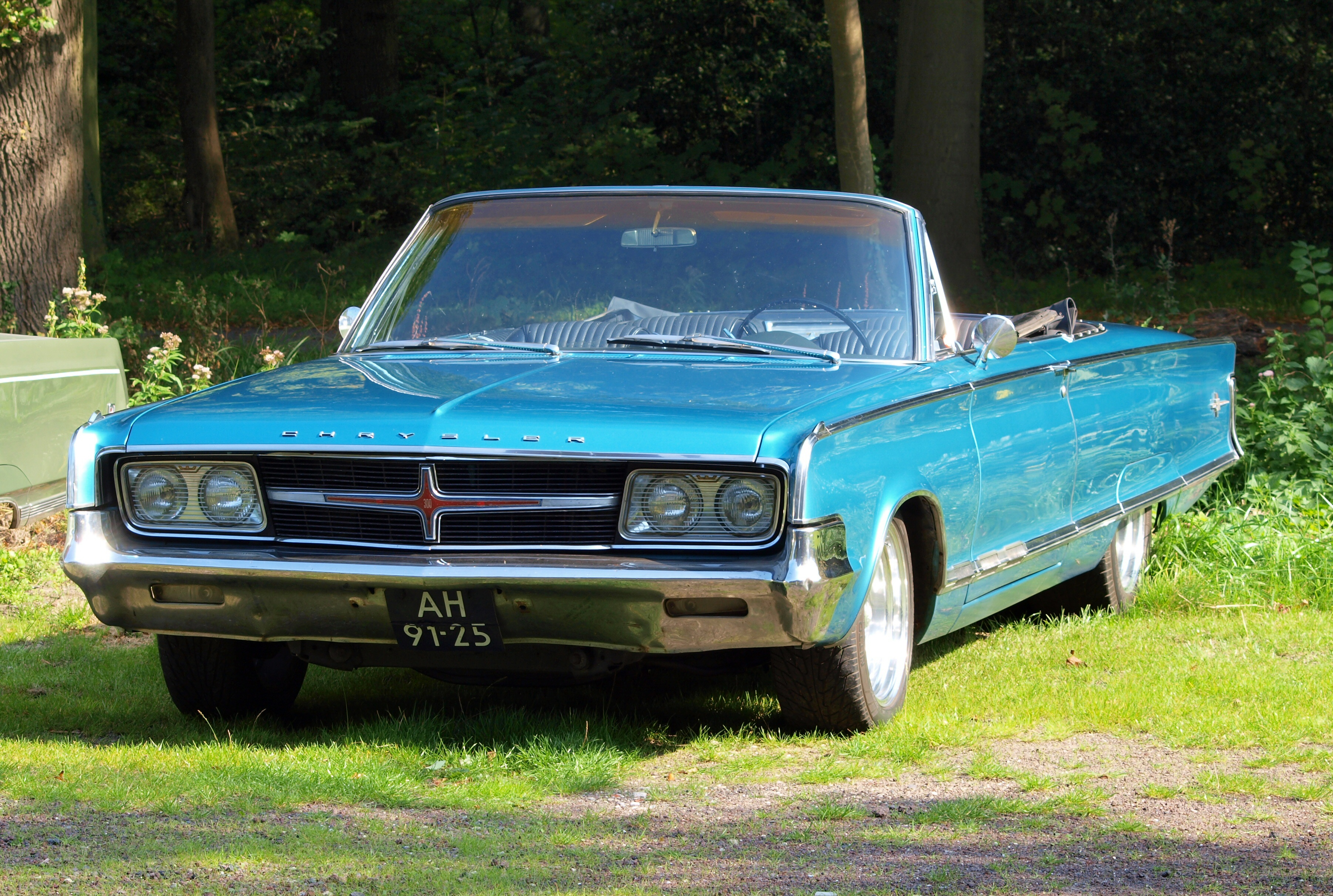 Photographed at the premmesis of the Louwman museum, The Hague, The Netherlands. OLYMPUS DIGITAL CAMERA